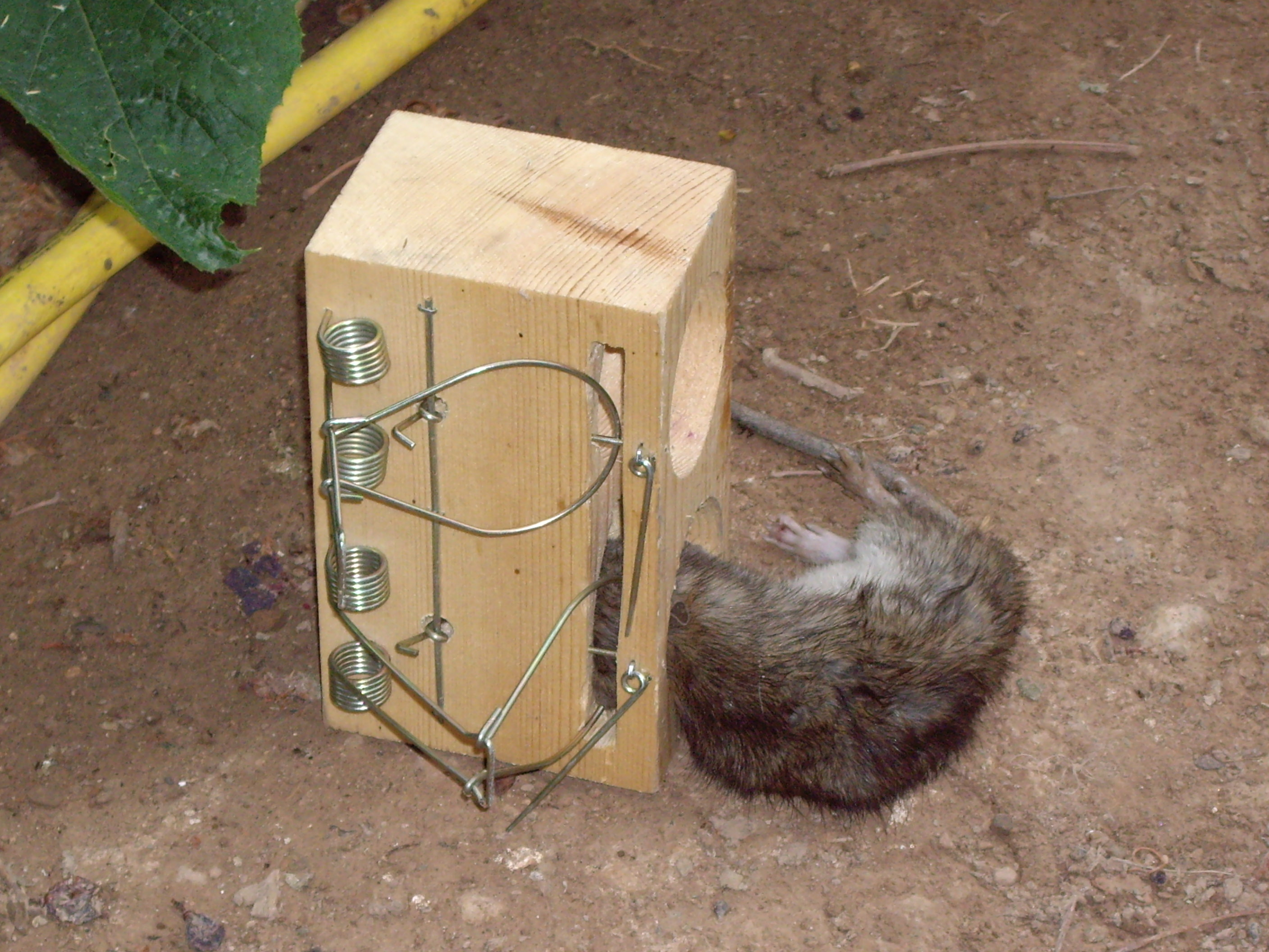 A rat caught in a rat trap